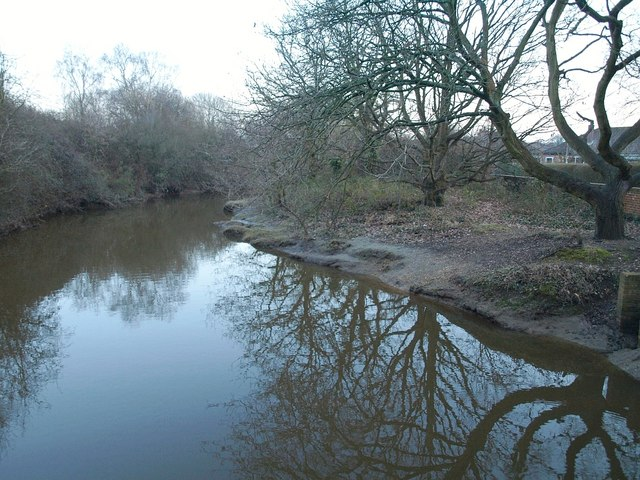 Bartley Water Taken at dusk looking downstream from a footbridge crossed by Totton and Eling Footpath 32 and the Test Way. This is marked on maps as the normal tidal limit of the river.